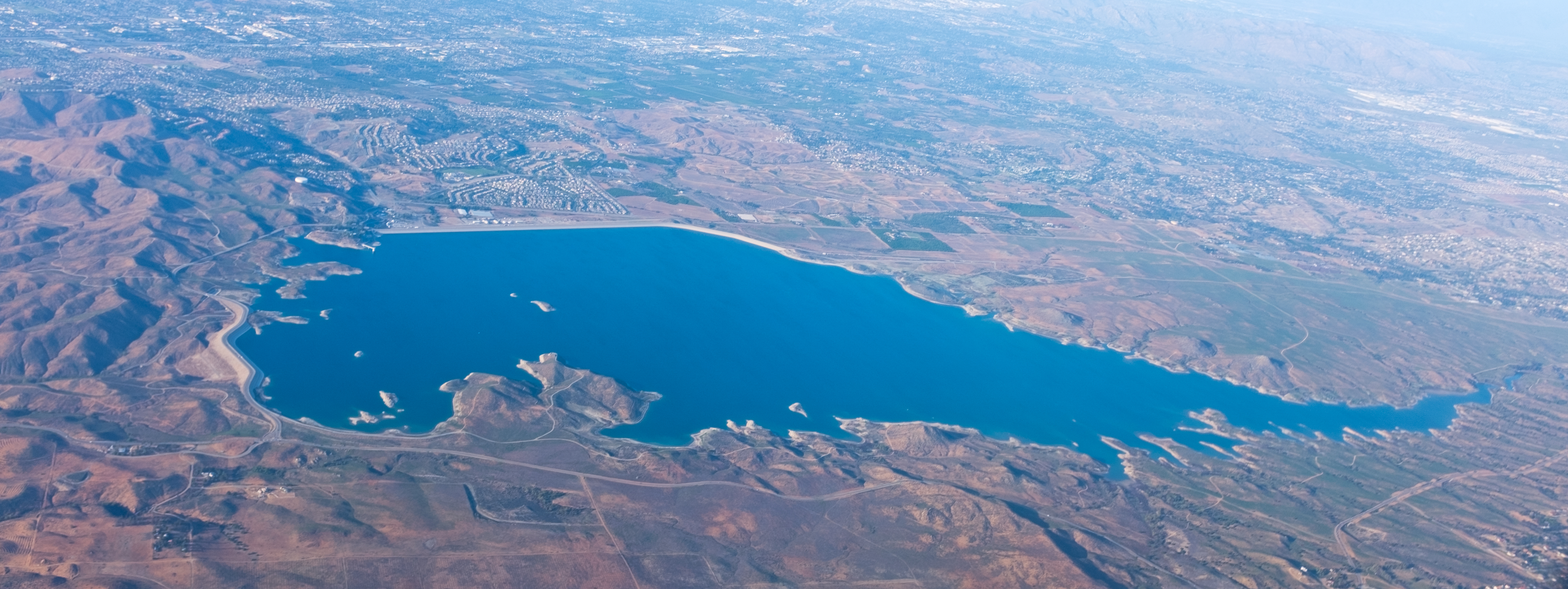 View of Lake Mathews in Riverside County, from the air